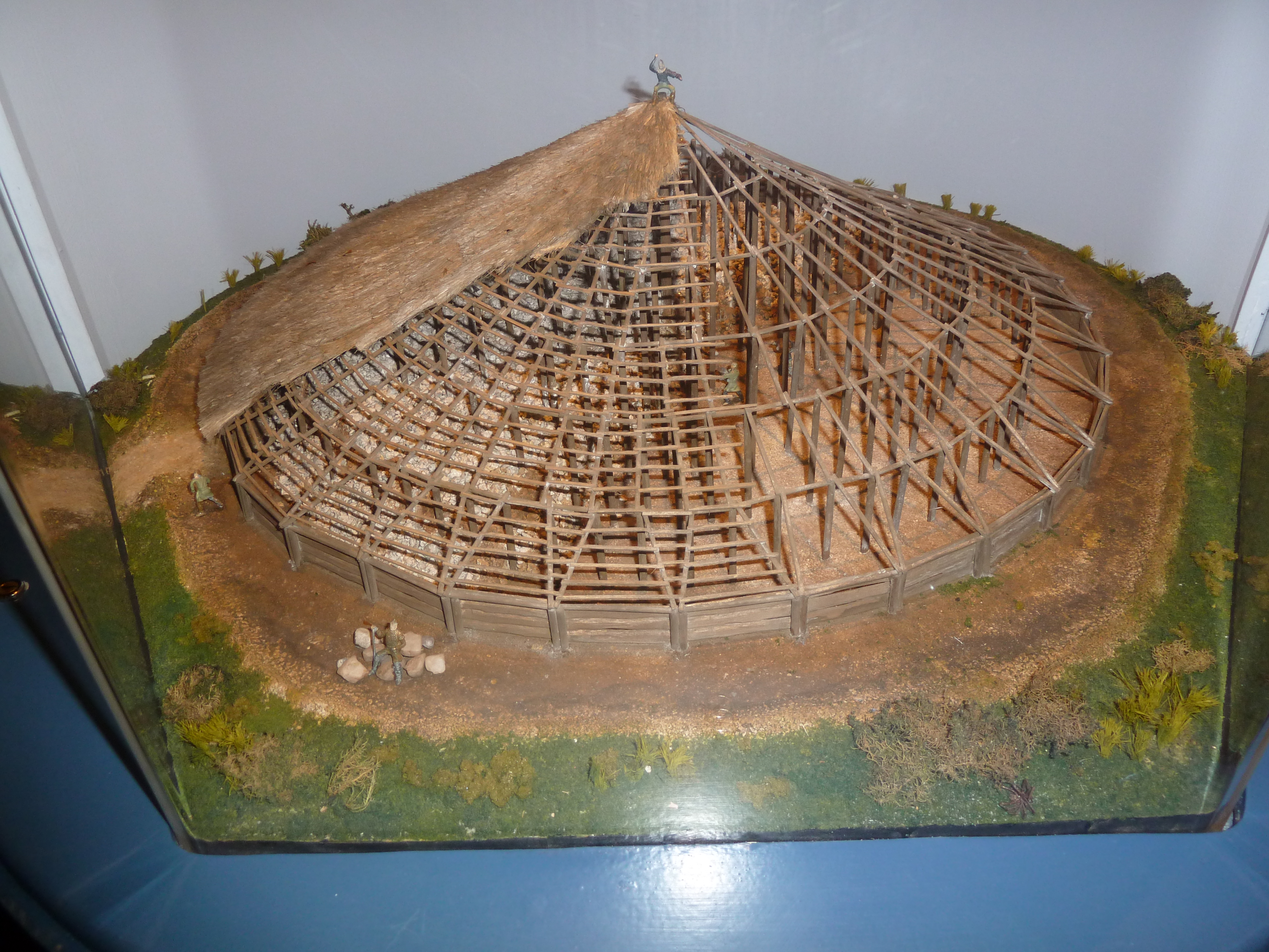 Reconstruction of the Iron age building at Navan, Co. Armagh, Ireland. Archaeological excavations have revealed that the construction of the 40 metre mound dates to 95 BC (securely dated by dendrochronology).[3] A roundhouse-like structure consisting of four concentric rings of posts around a central oak trunk was built, its entrance facing west (prehistoric houses invariably face east, towards the sunrise). The floor of the building was covered with stones arranged in radial segments, and the whole edifice was deliberately burnt down before being covered in a mound of earth and turf (there is archaeological evidence for similar repeated building and burning of Tara and Dún Ailinne).[3] The bank and ditch that mark the enclosure were made at the same time.